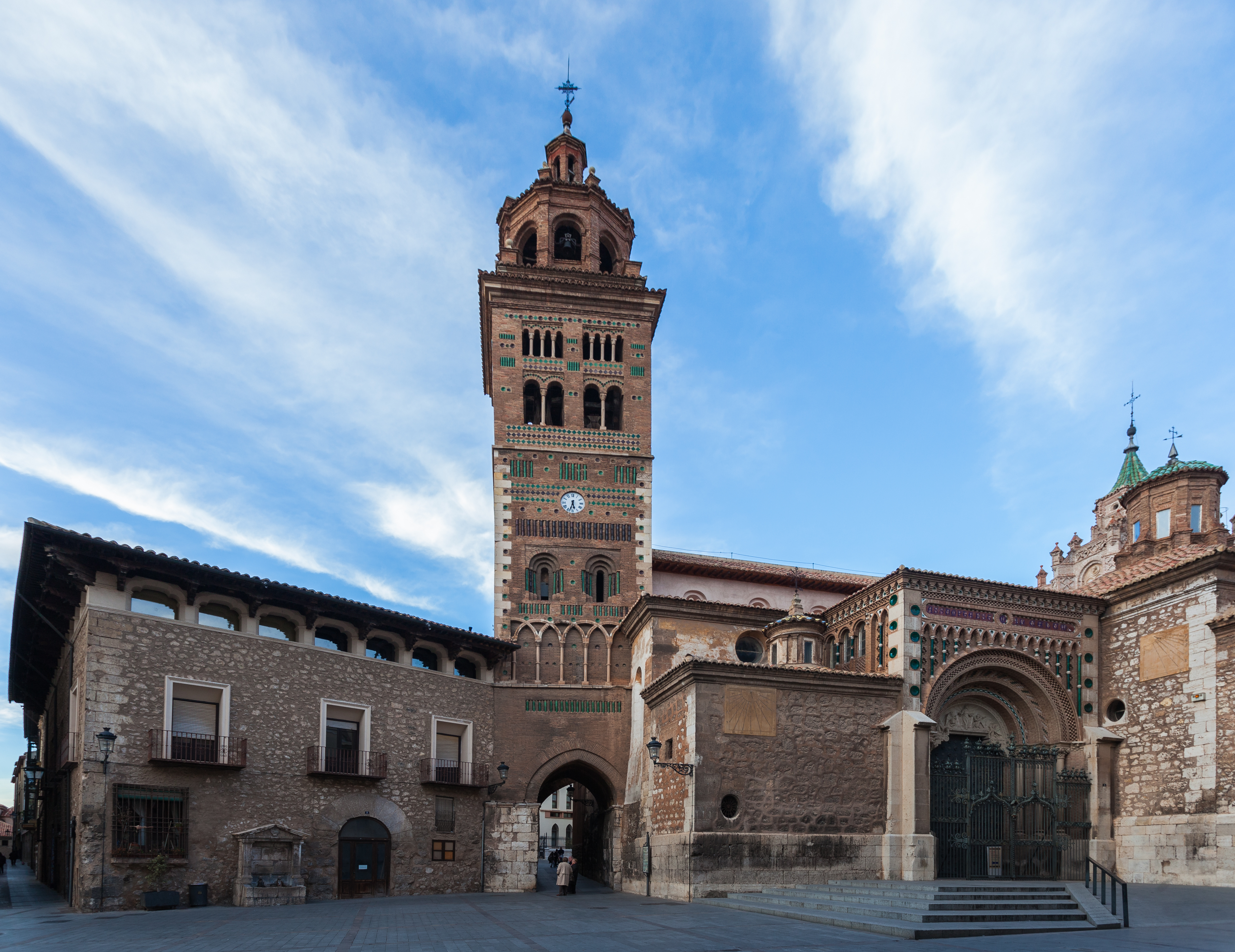 Cathedral, Teruel, Spain